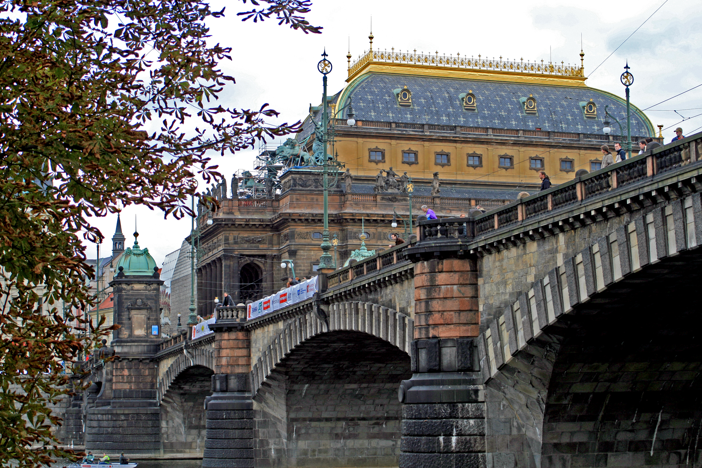 View on National Theatre in Prague, Czech Republic